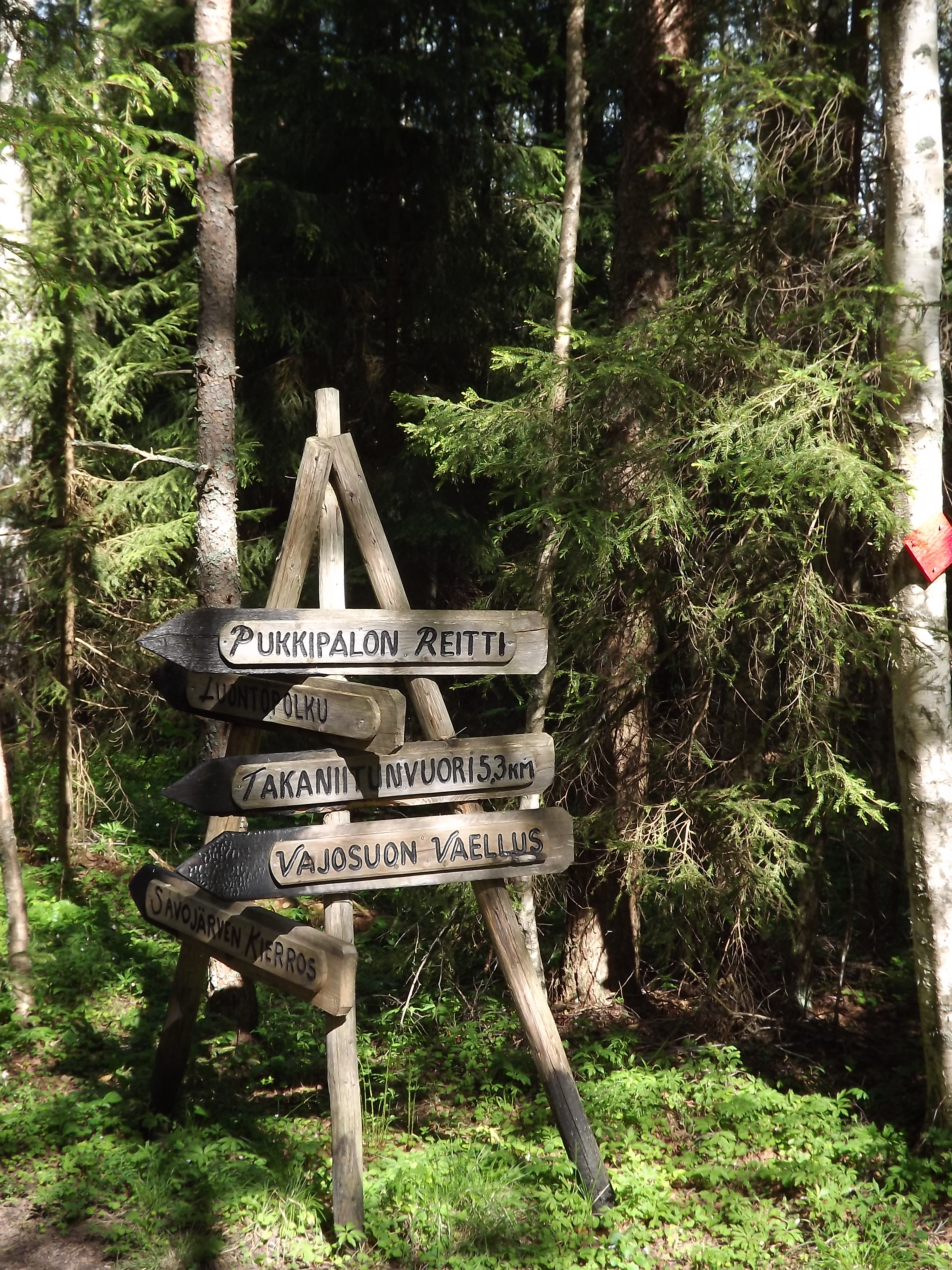 Fingerpost in Kurjenrahka National Park, at Rantapiha.